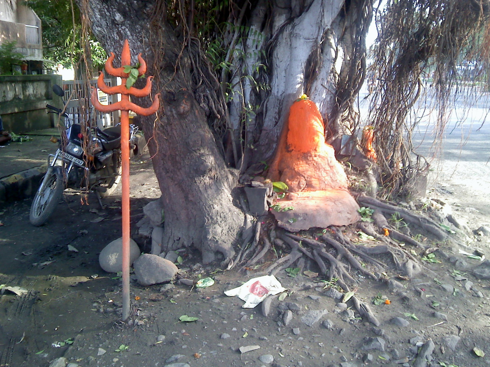 Verminion (Shendur, sindur) on a stone, a typical of a hindu God. The trishool (trident) is a typical weapon of the Hindu dieties.